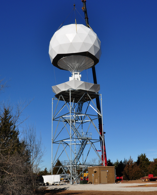 Photograph of OU-PRIME during construction